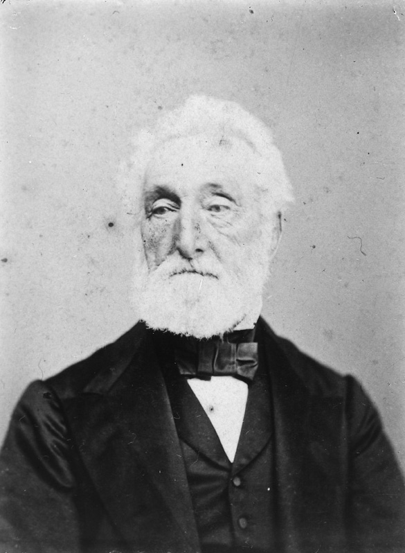 1/4 length portrait of Thomas Houghton Bartley, first speaker of the Legislative Council. Source: Sir George Grey Special Collections, Auckland Libraries, 4-2731